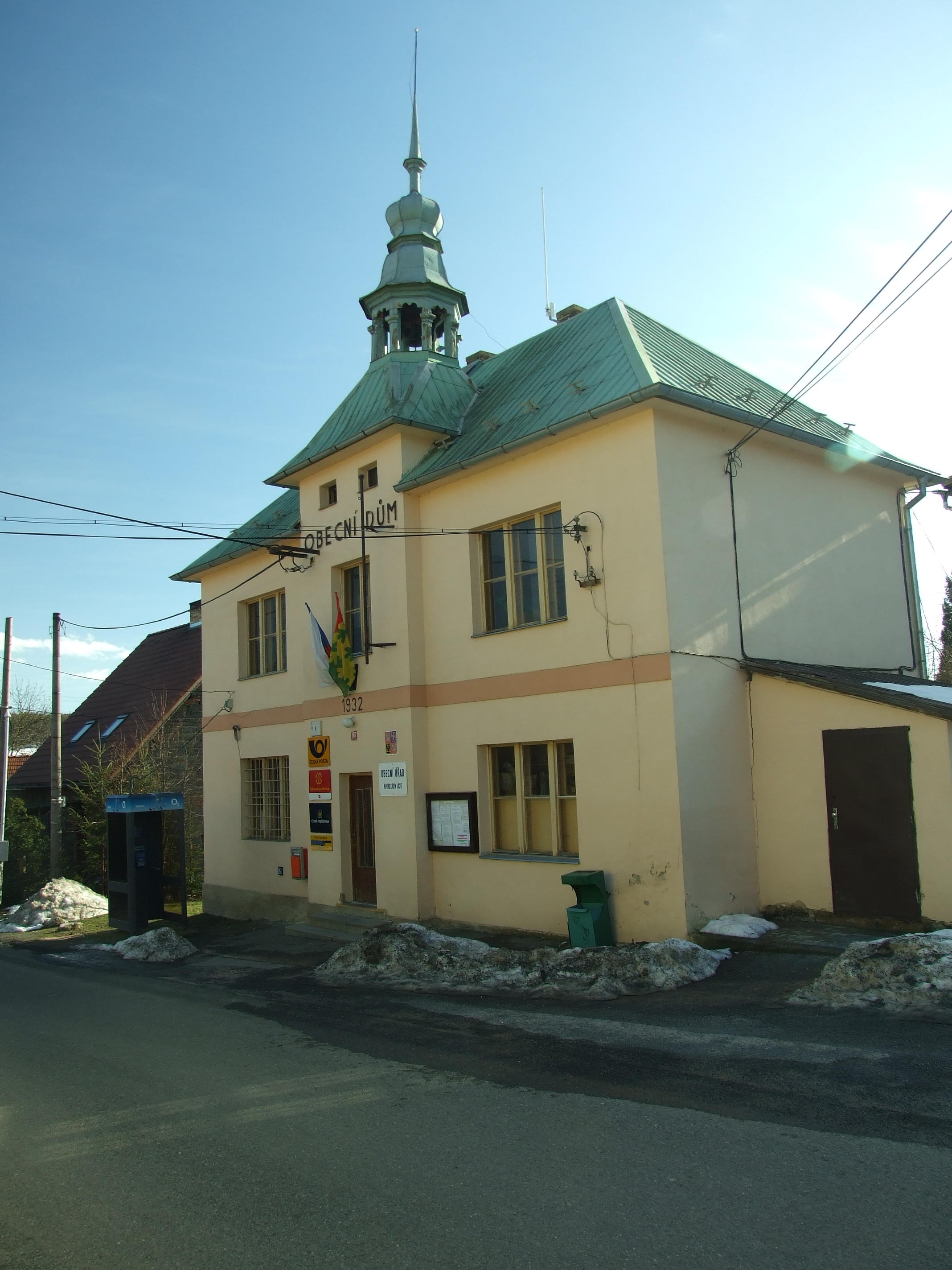 Hvozdnice town hall. Hvozdnice is located near Štěchovice and Mníšek pod Brdy, Central Bohemian Region, CZ